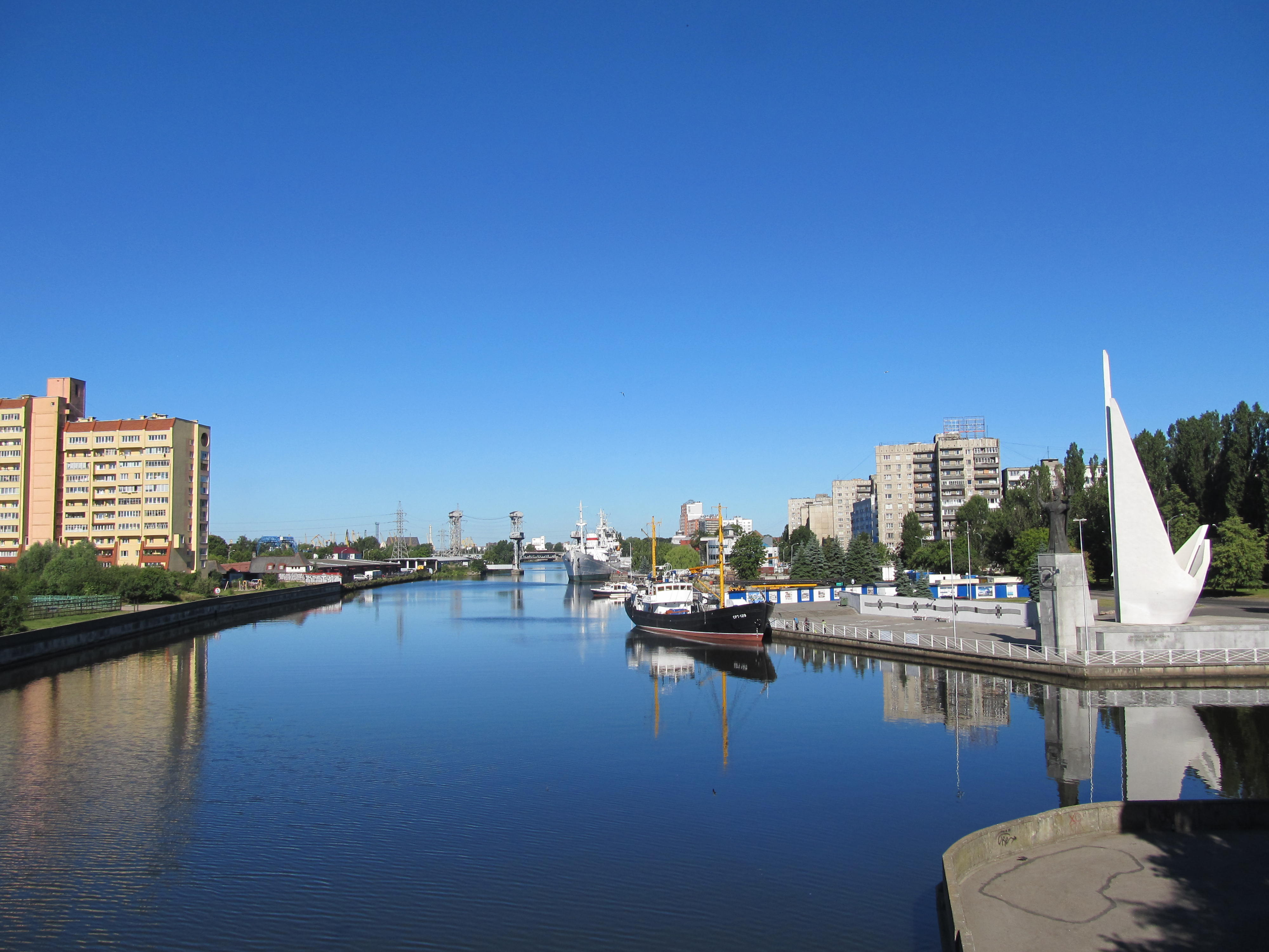 Panorama / Museum of the World Ocean (Kaliningrad, Russia)